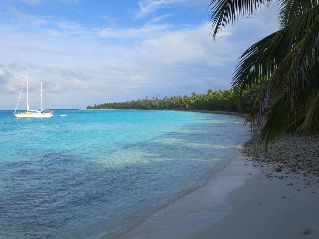 Cruising yachts tend to anchor in the protected waters off Direction Island, Cocos (Keeling) Islands.